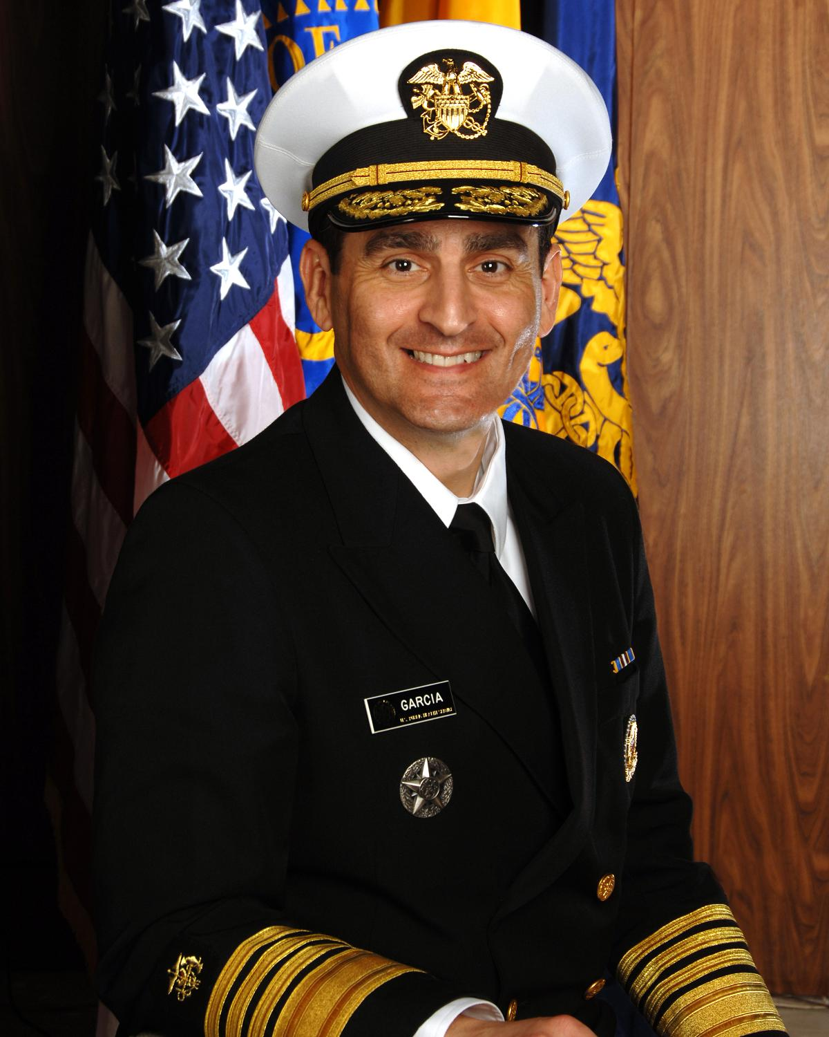 Admiral Joxel García, USPHS, United States Assistant Secretary for Health from March 28, 2008 until January 20, 2009.